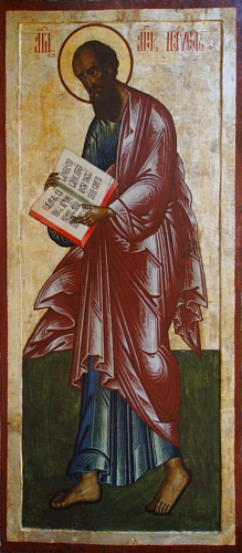 Paul the Apostle, Russian icon from first quarter of 18th cen.